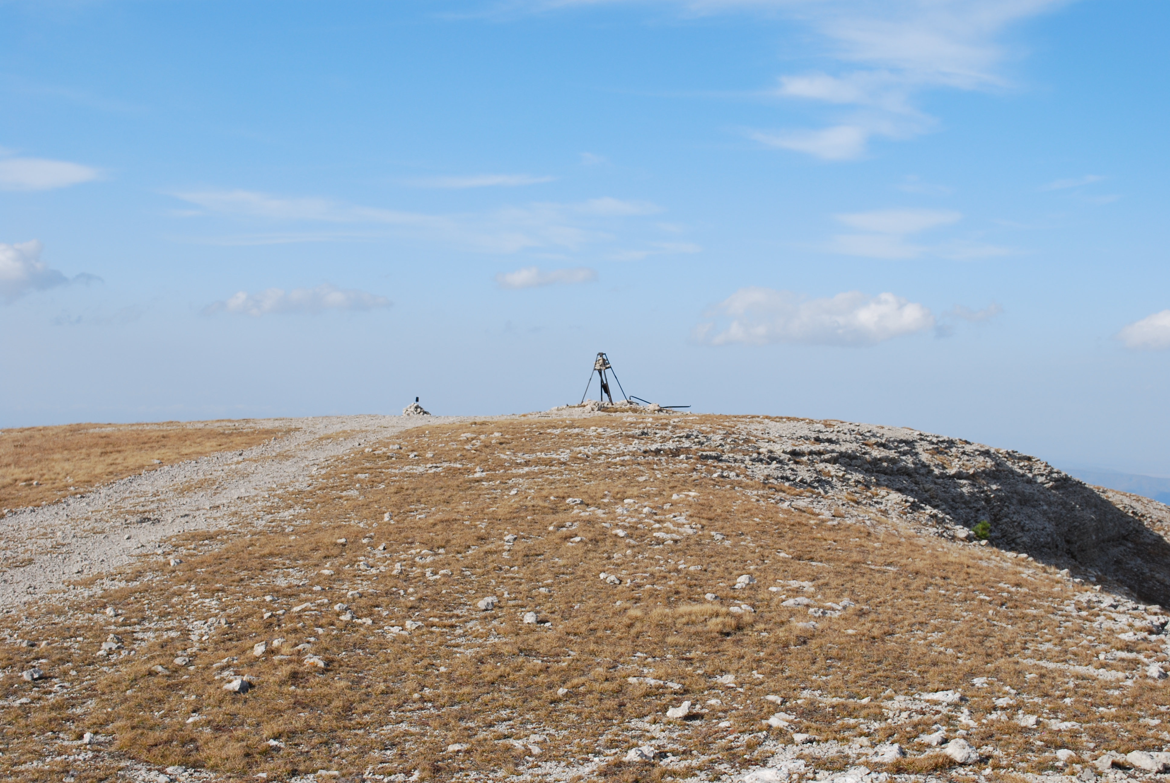 The tip of the mount Kemal-Egerek in Crimea.